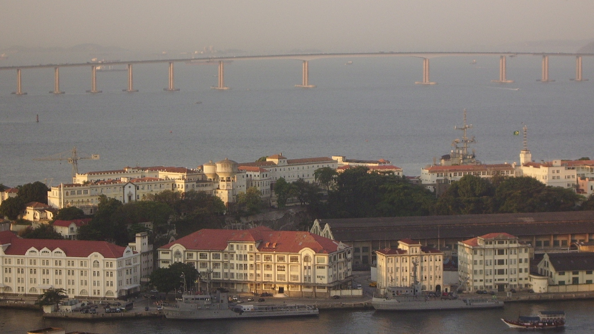 Ilha das Cobras with Navy buildings in Rio de Janeiro, Brazil